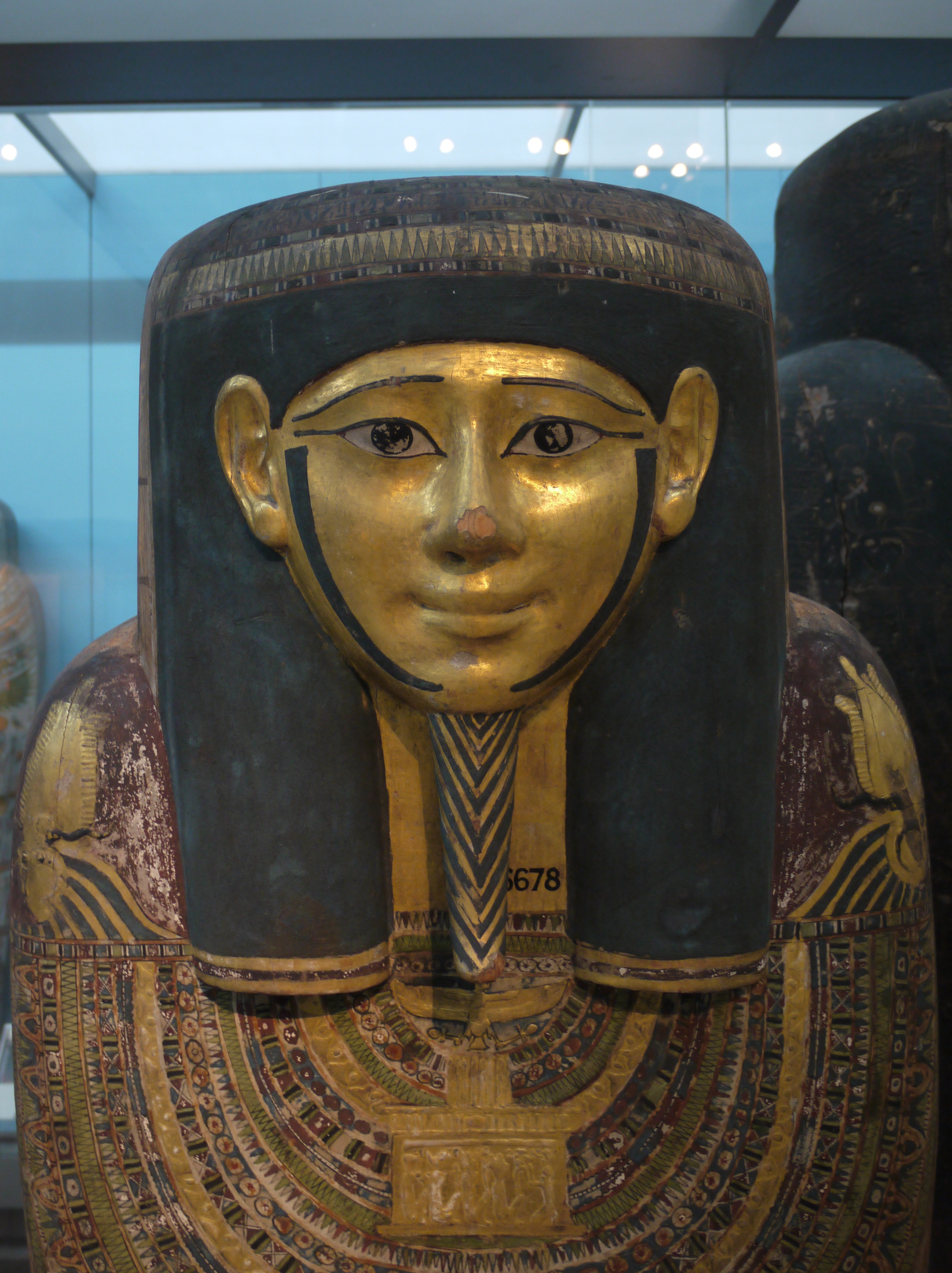 Photo of the head of the inner coffin of the mummy of Hornedjitef at the british museum.